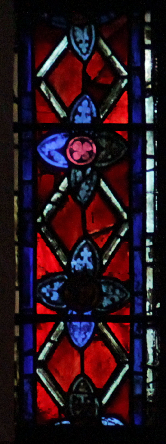 Stained glass of Notre Dame de Chartres - Window 12 - Life of Saint Remigius.